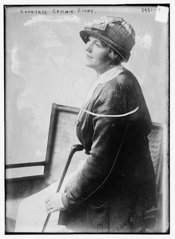 Julia May Moran, alias Countness Kázmér Hyppolit Zichy, wife of Kázmér Hyppolit Zichy, Earl of Zichyújfalu (Hungary)